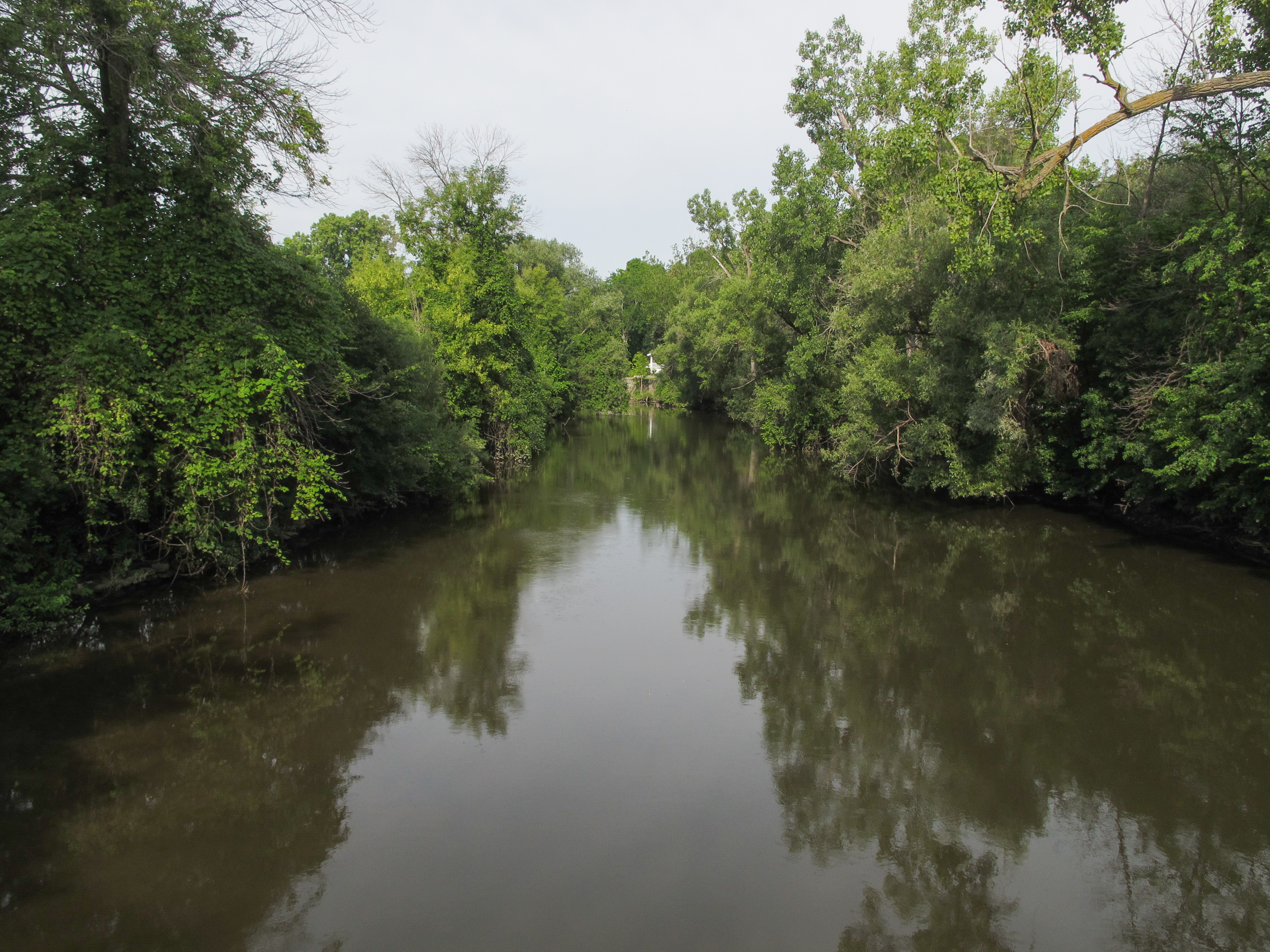 The Pine River as viewed upstream from a bridge on the Alma River Walk in Alma, Michigan.